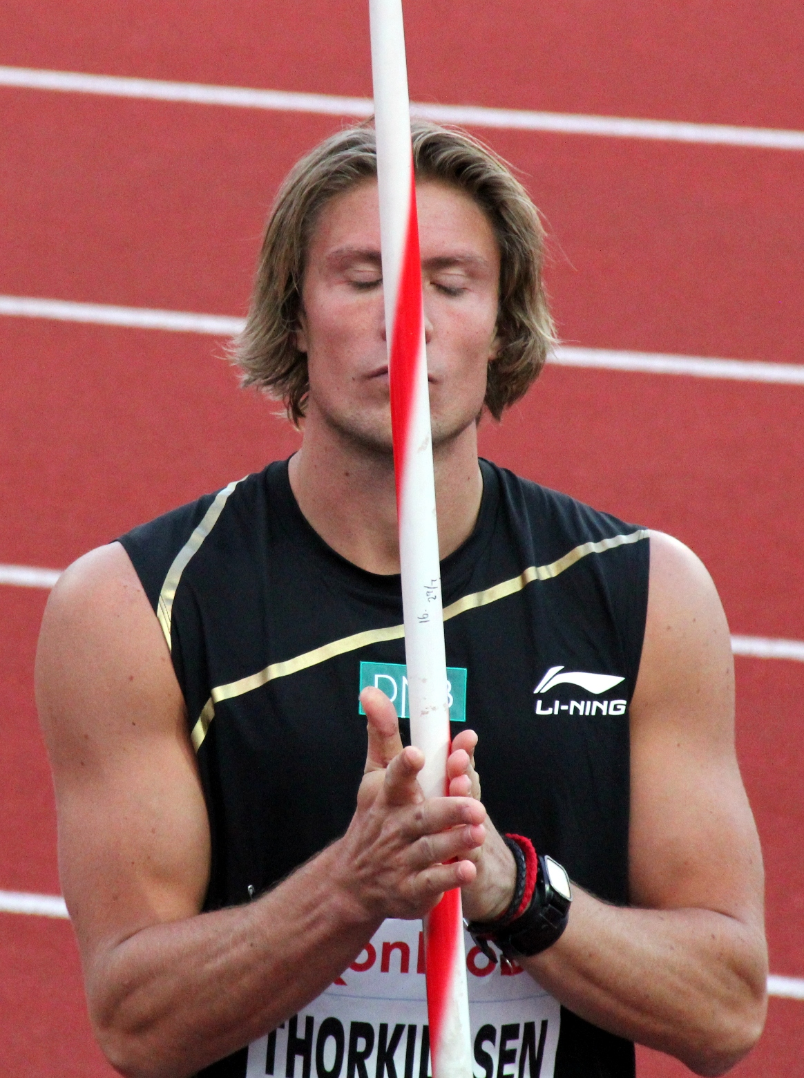 Andreas Thorkildsen under 2012 Bislett Games (reduced resolution)